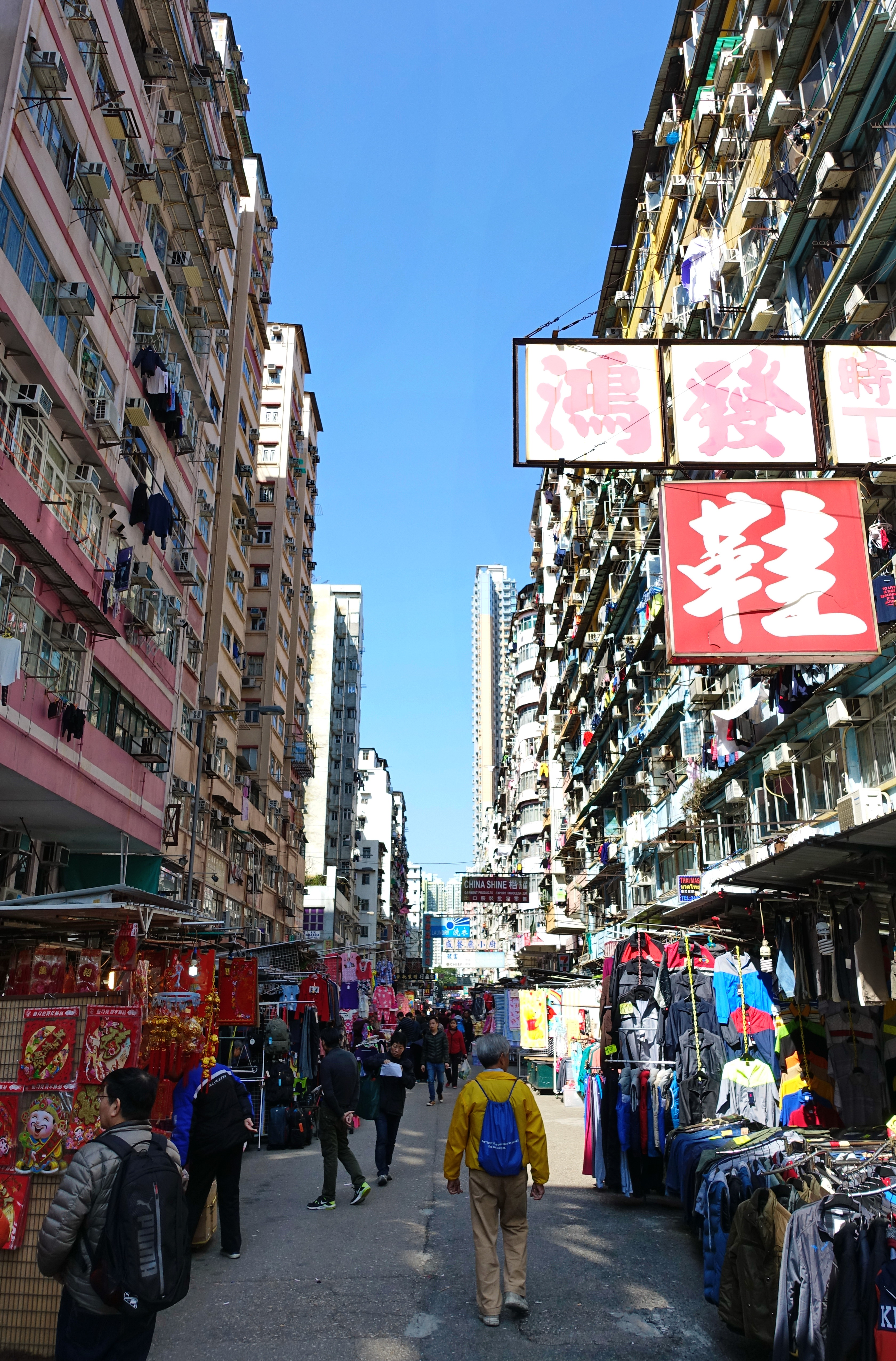 Fuk Wa Street, looking north west from Nam Cheong Street, Sham Shui Po, Kowloon, Hong Kong.